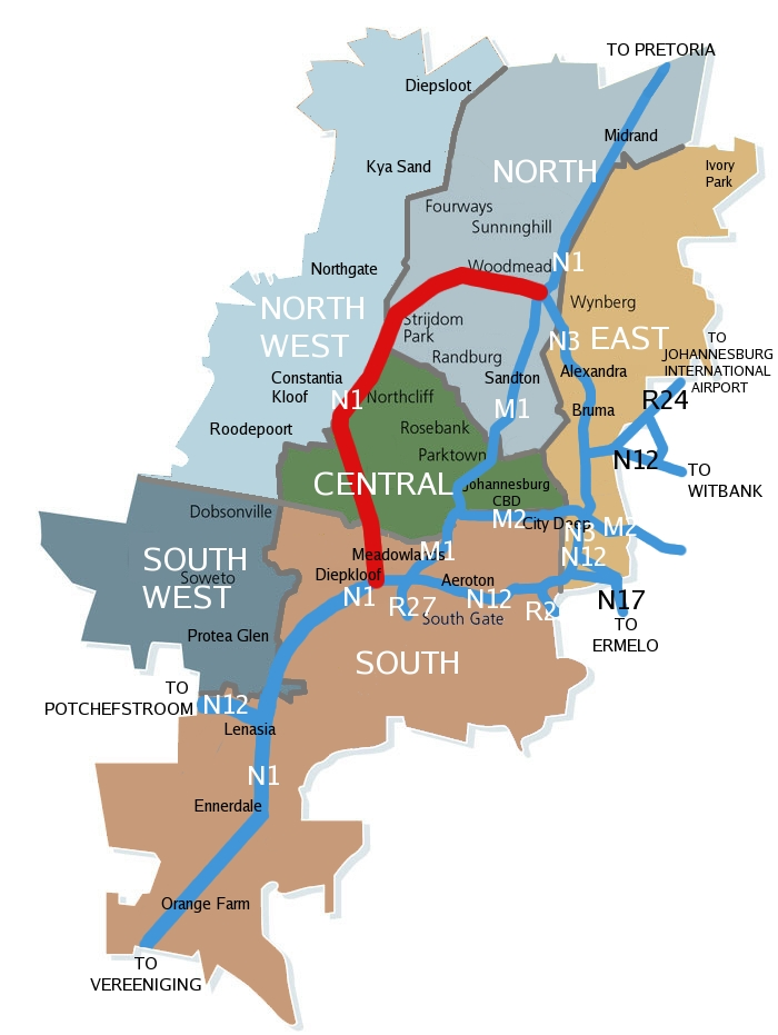 Map of Johannesburg with road and region markings. N1 Bypass marked in red. Original image by User:PZFUN; adaptation and editing by User:NicholasTurnbull.